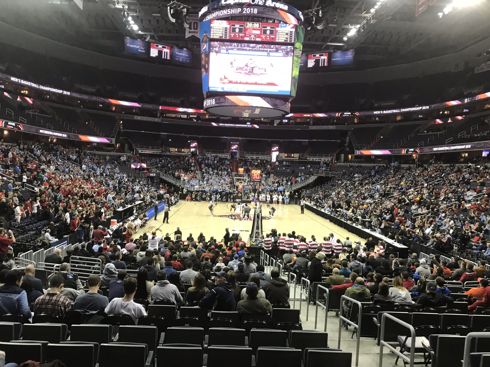 Capital One Arena immediately prior to the start of the championship game of the 2018 Atlantic 10 Men’s Basketball Tournament